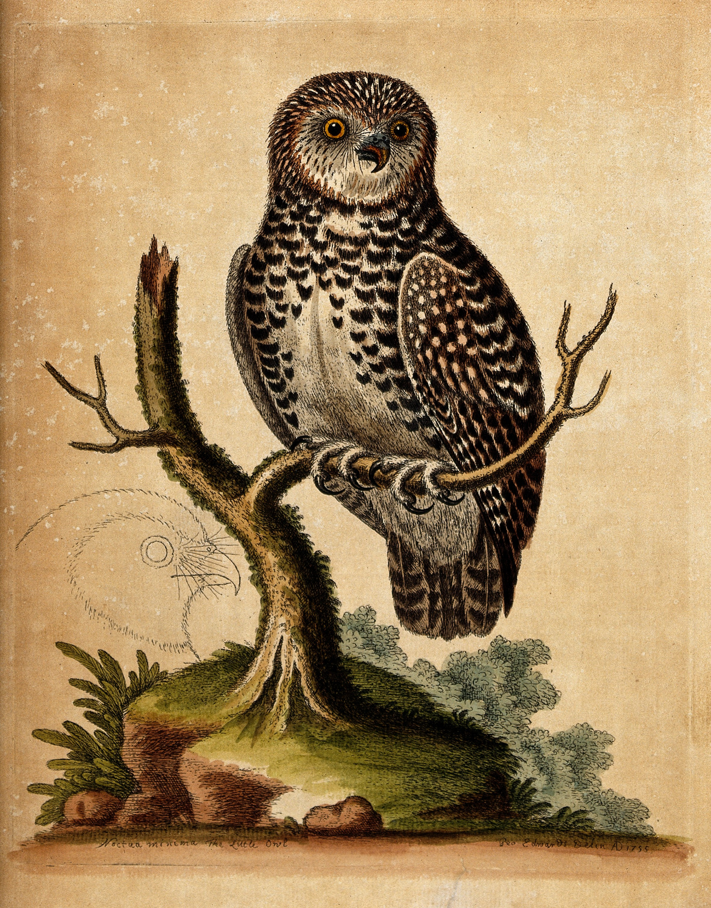 A little owl sitting on the branch of a dead tree. Coloured etching by G. Edwards after himself. Iconographic Collections Keywords: George Edwards